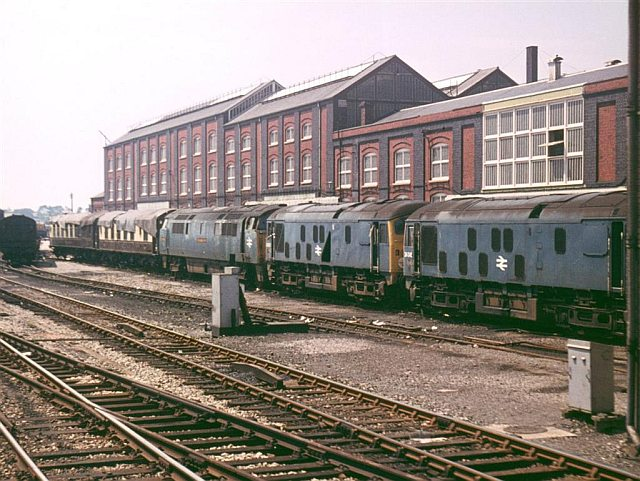 Scrap Locos and Swindon Works Offices A sad sight even in 1976, everything has gone from this view today, after the works closed in 1985.